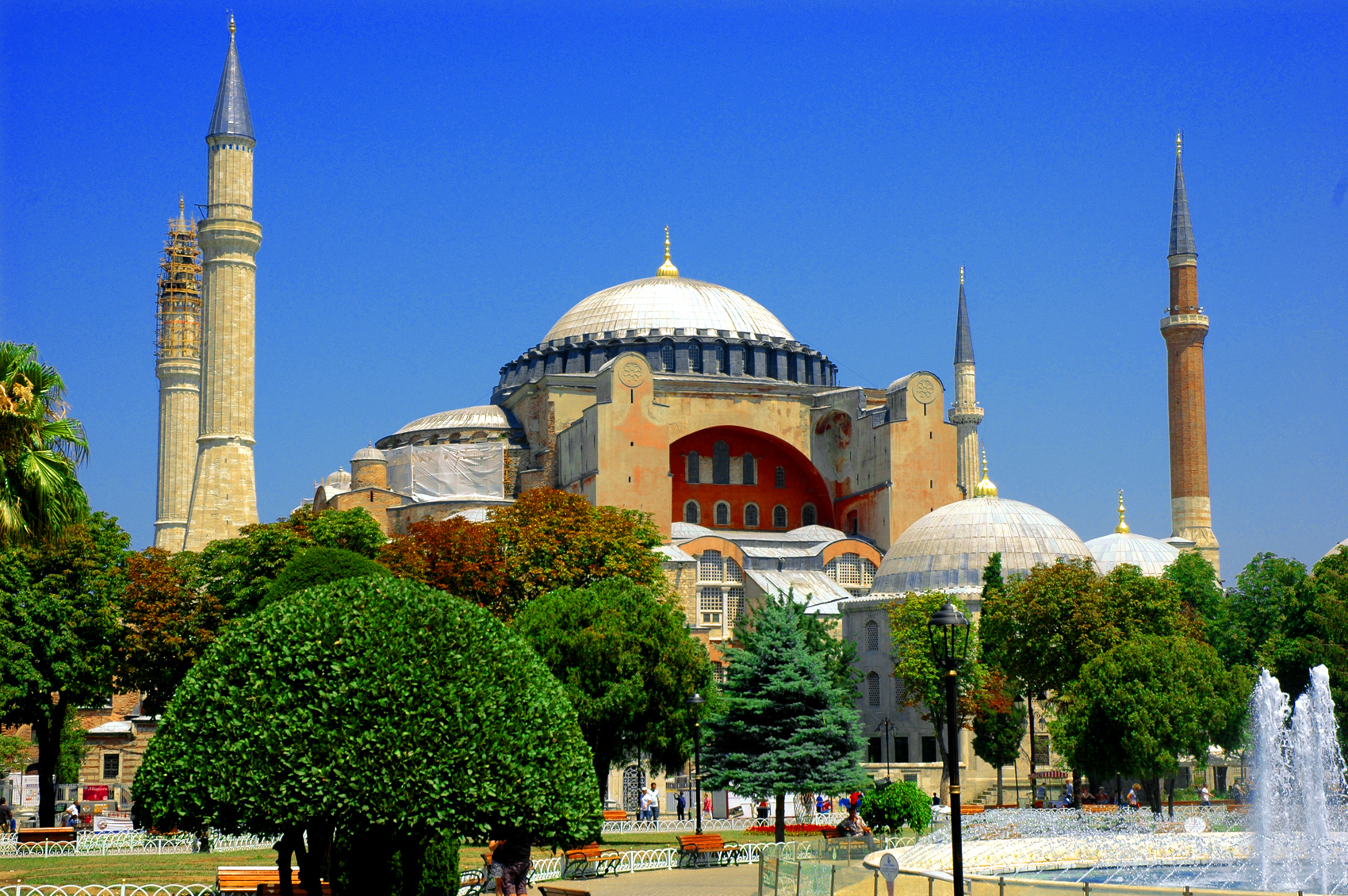 Hagia Sophia (Holy Wisdom) - the epitome of Byzantine architecture